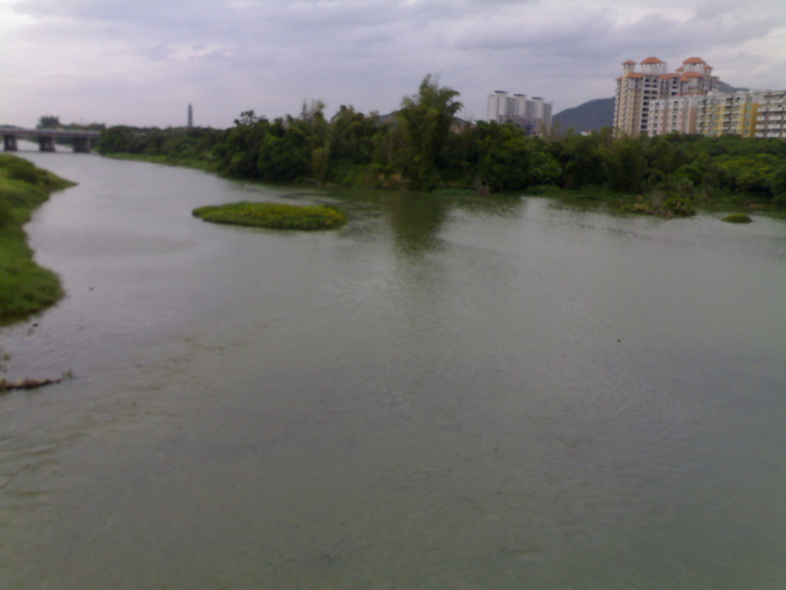 The Liuxi river in Conghua City,Guangzhou(Canton)